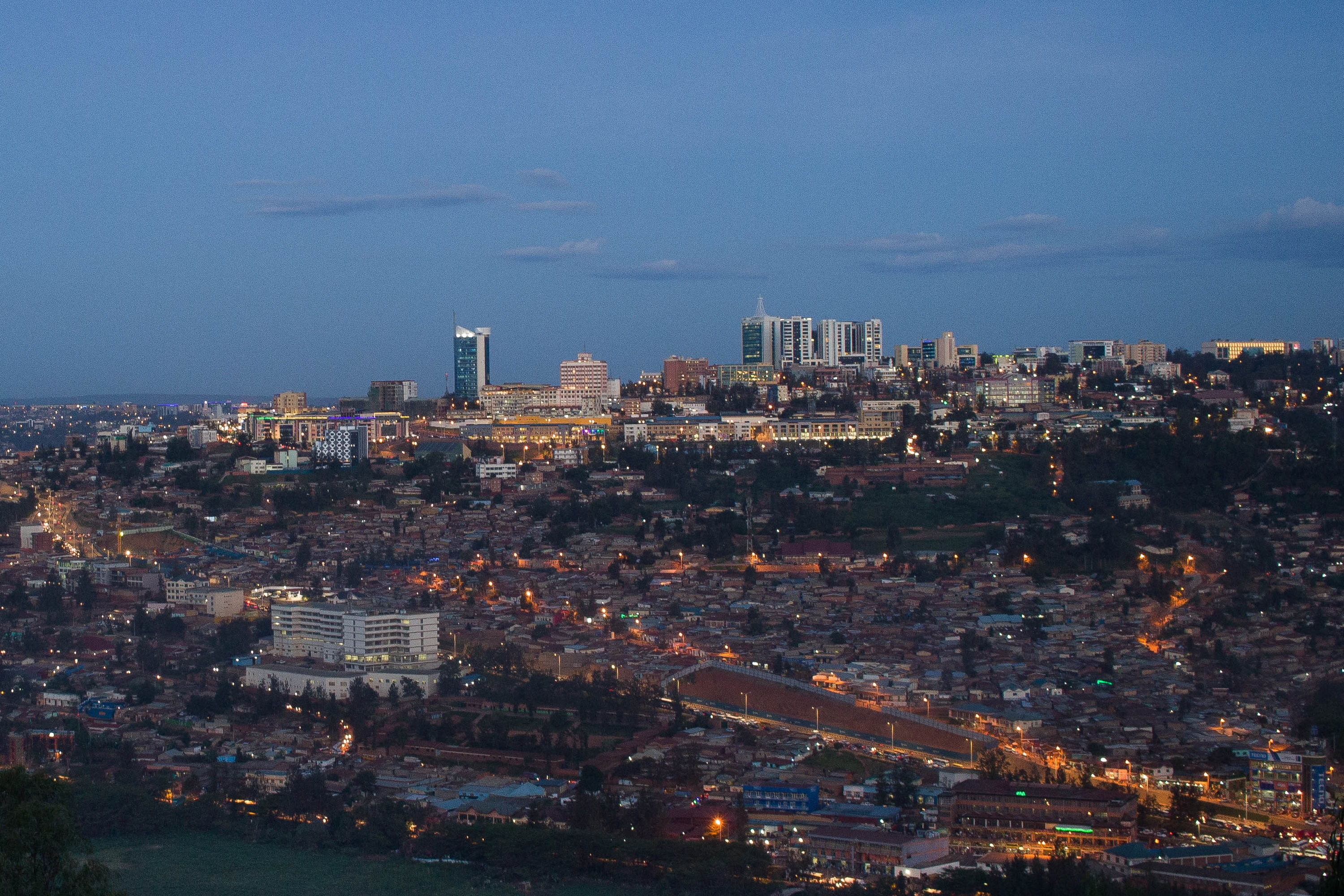 The skyline of central Kigali. Cropped from File:Kigali2018.jpg